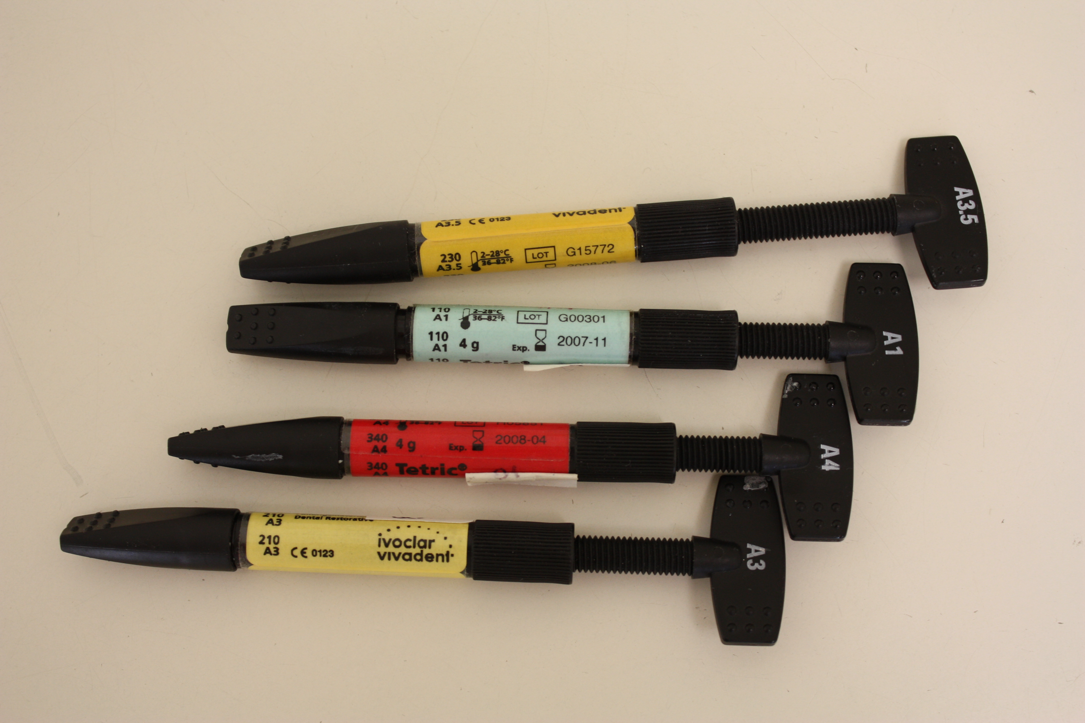 Komposite (Zahnmedizin) - Tetric Ceram 2009